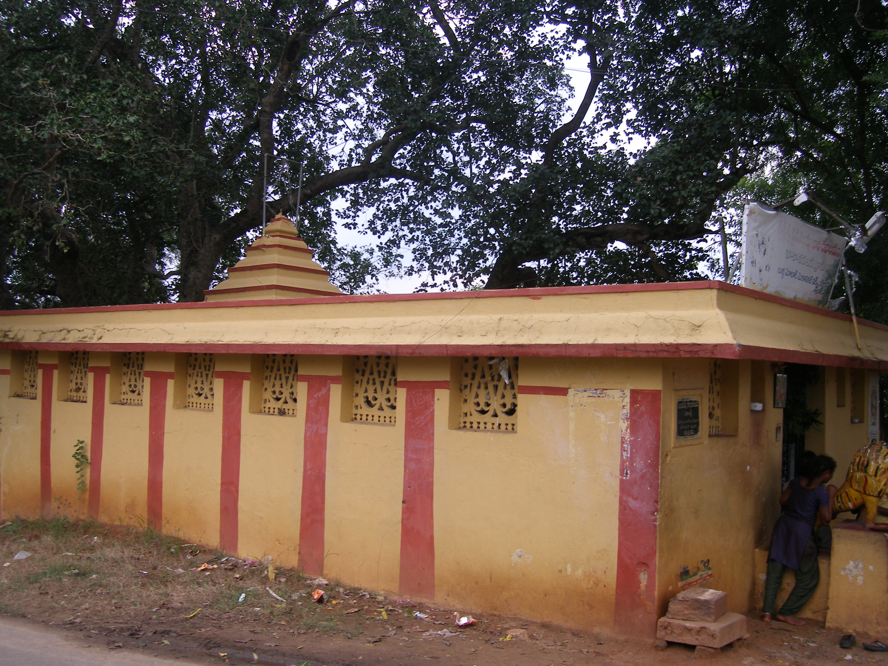 This is photograph of Gramadevata temple at Vakadavalasa in Vizianagaram district, Andhra Pradesh taken by me.Rajasekhar1961 (talk) 06:45, 21 October 2013 (UTC)